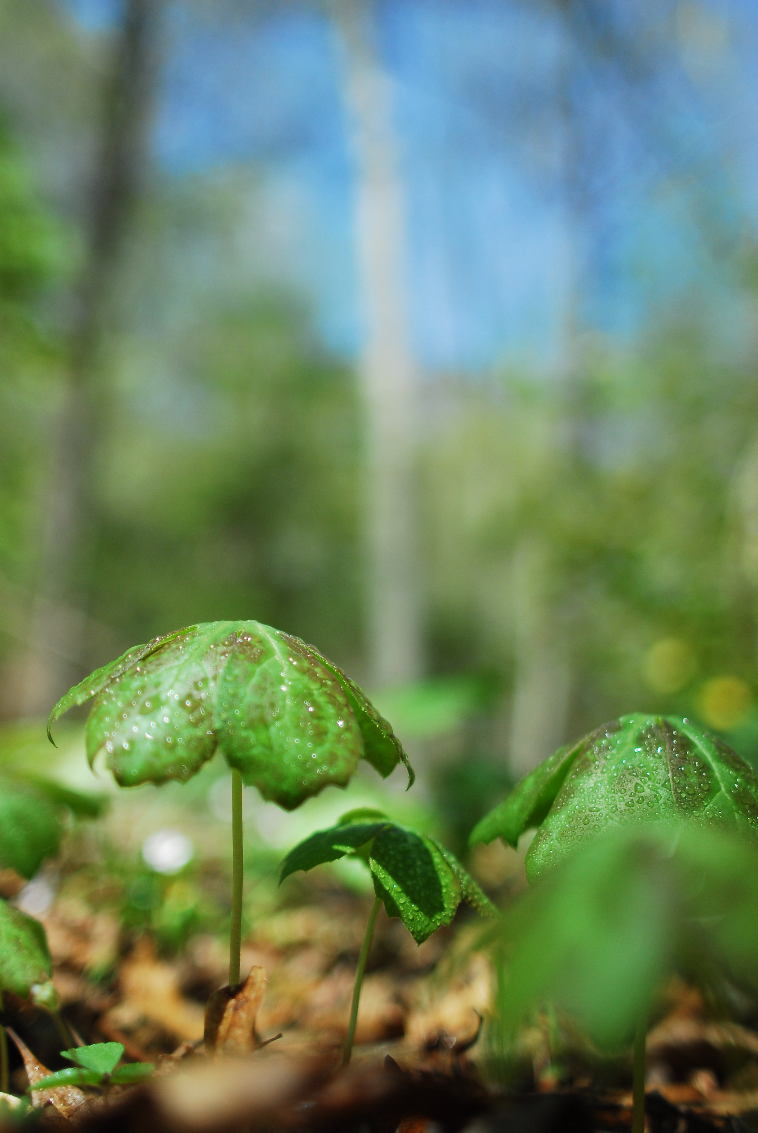 Photograph of a Northern Virginia Mayappleen (Podophyllum peltatum en ). Photo taken in Northern Virginia.